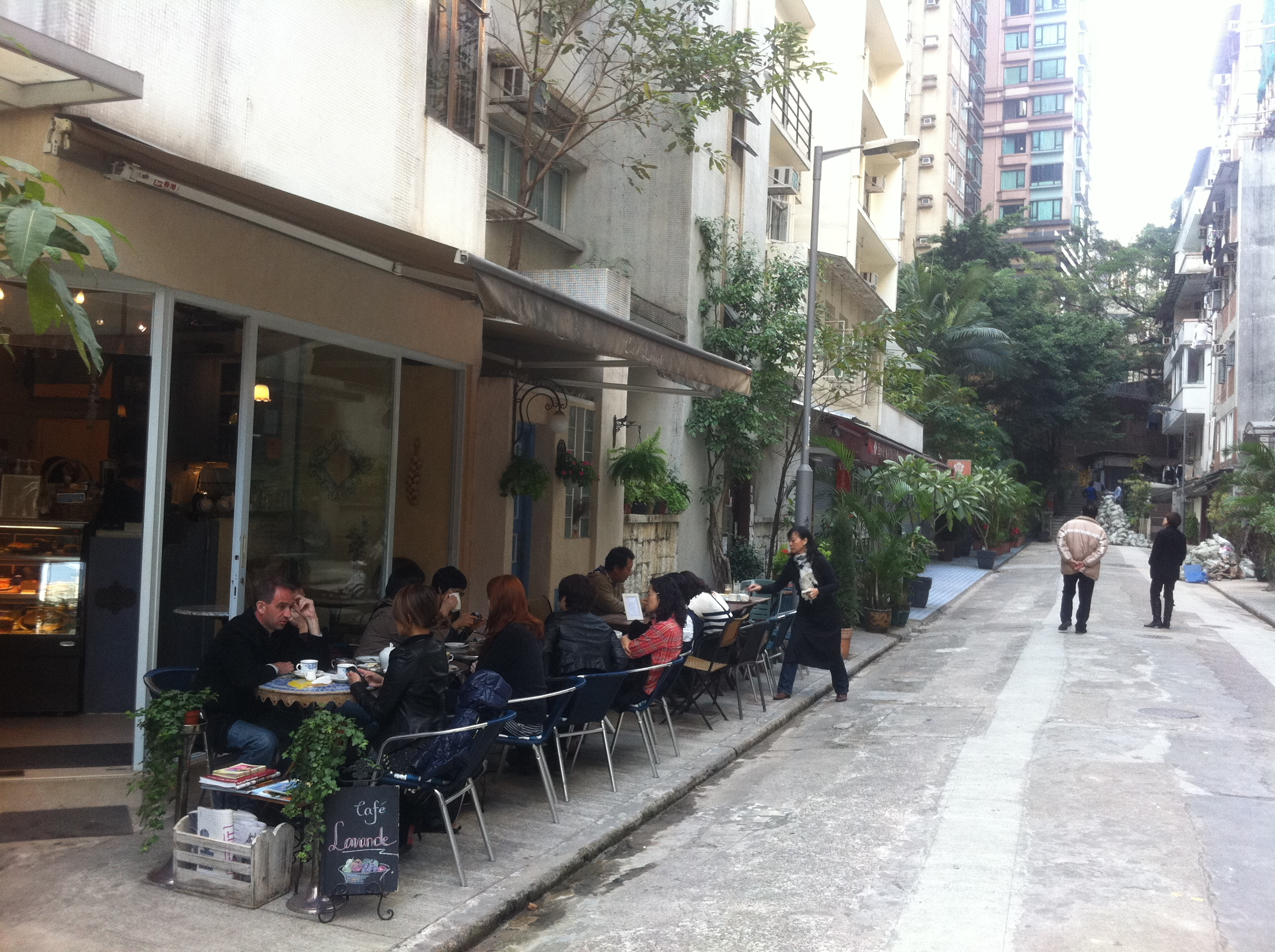 香港島半山太子臺